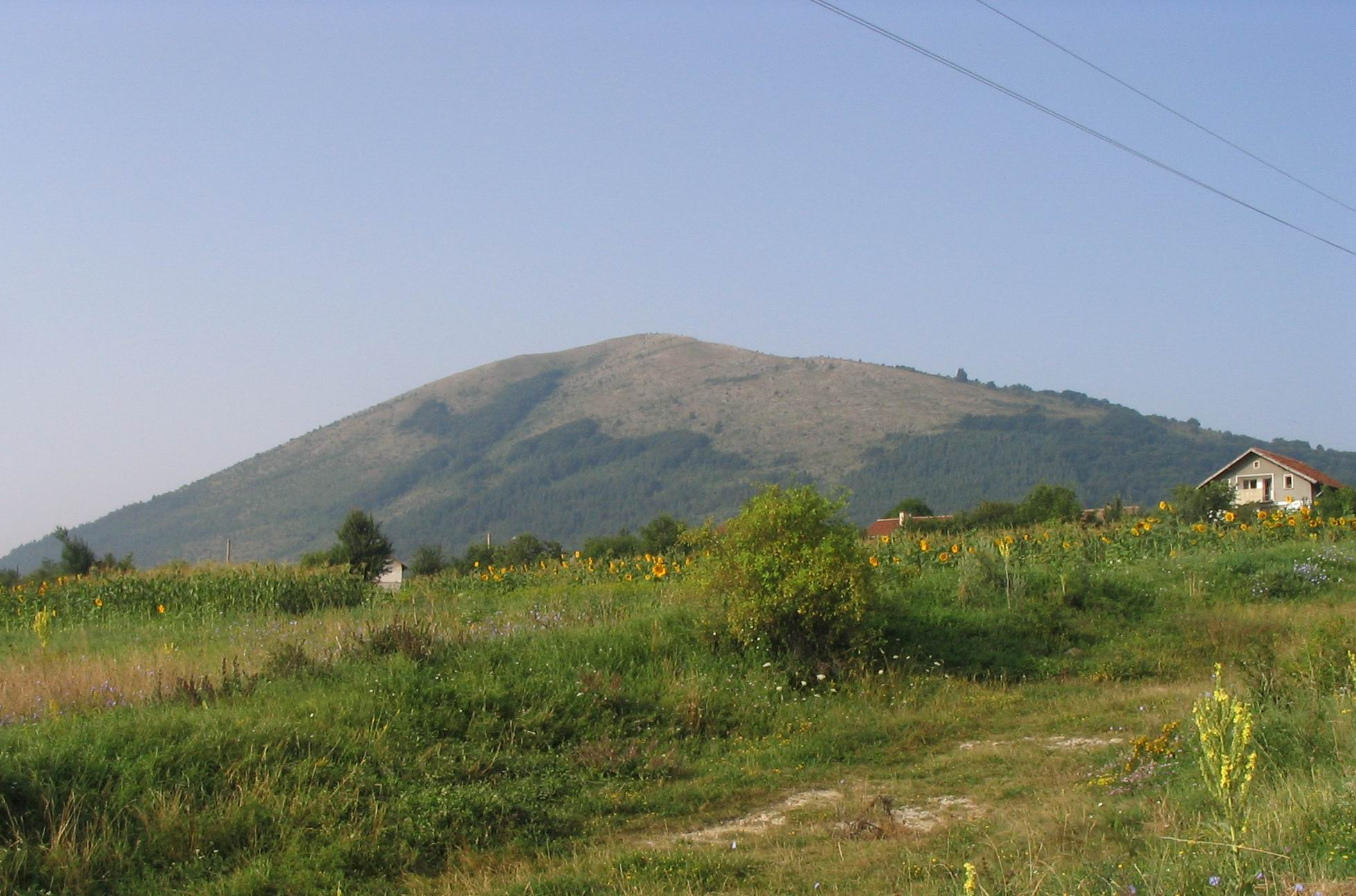 Peak Lyubash of mountain Lyubash as seen from village Lyalintsi, Bulgaria.